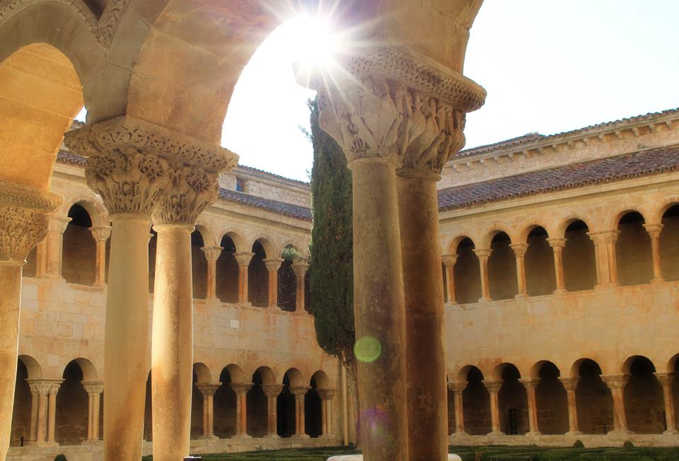 Abbey of Santo Domingo de Silos.